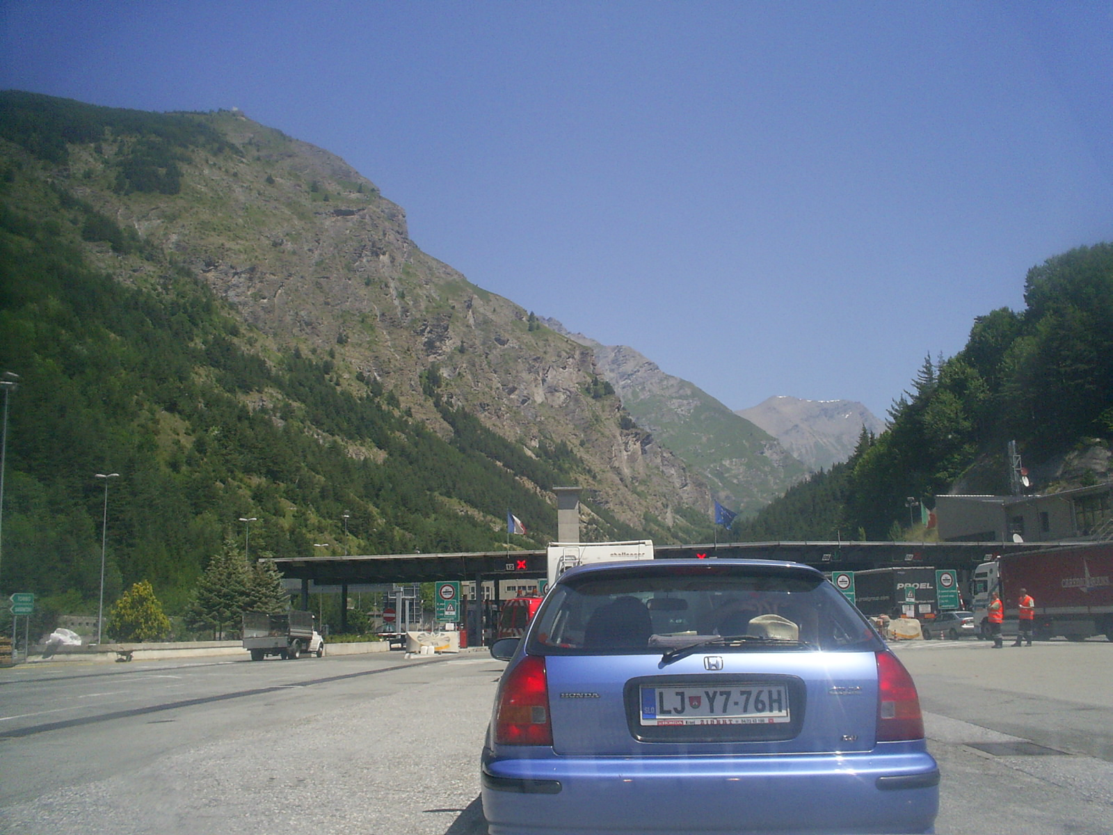 A32 highway, Italy - Toll gate Tunel de Frejus